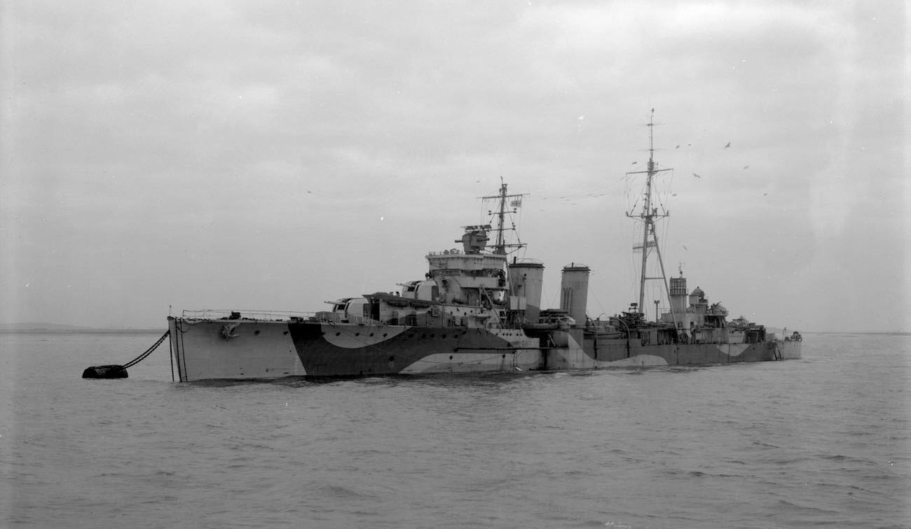 Royal Navy C-class light cruiser HMS Caledon at a buoy at Sheerness